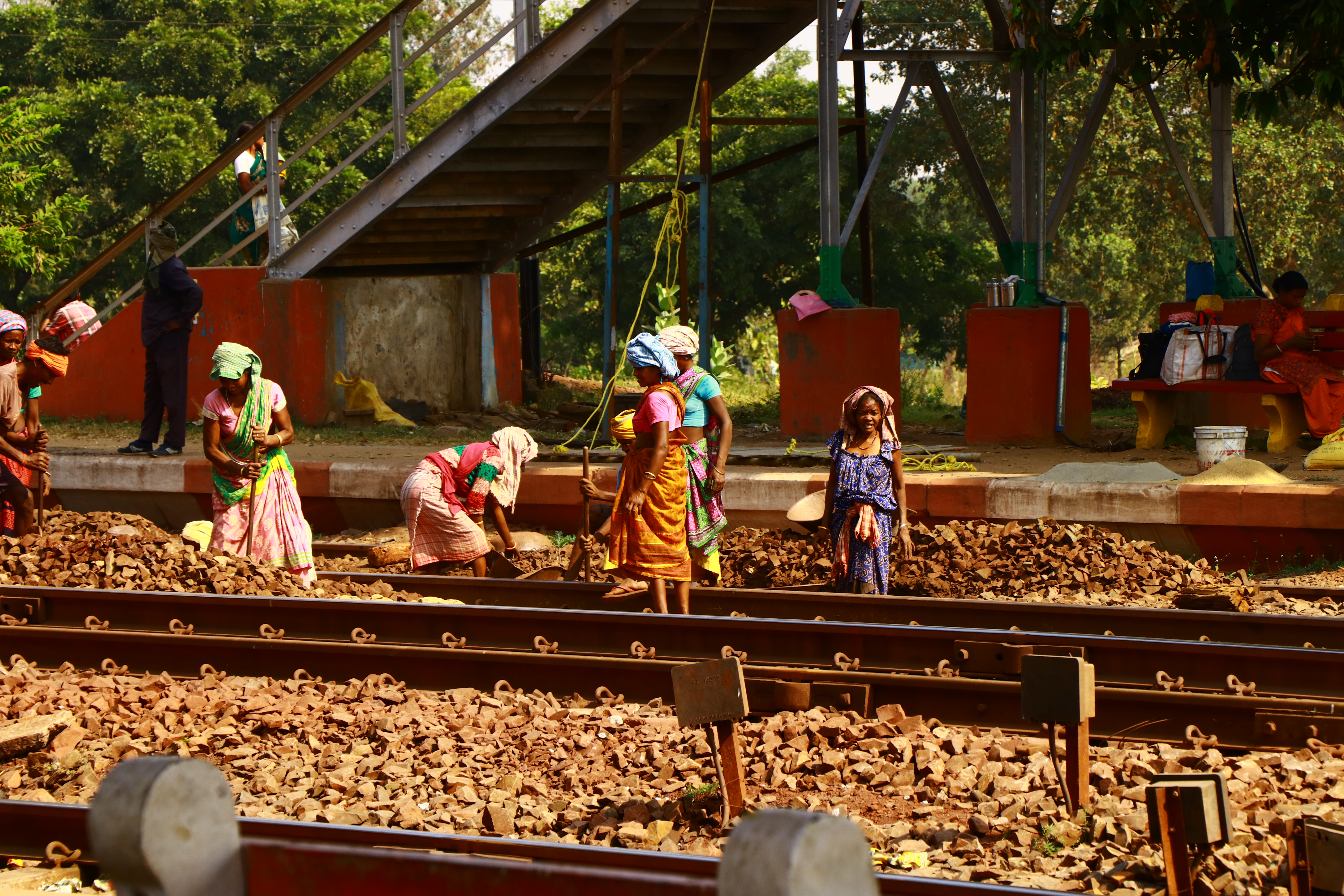 some poor village's women working on railway track due to lack of food in their house they work only for their children